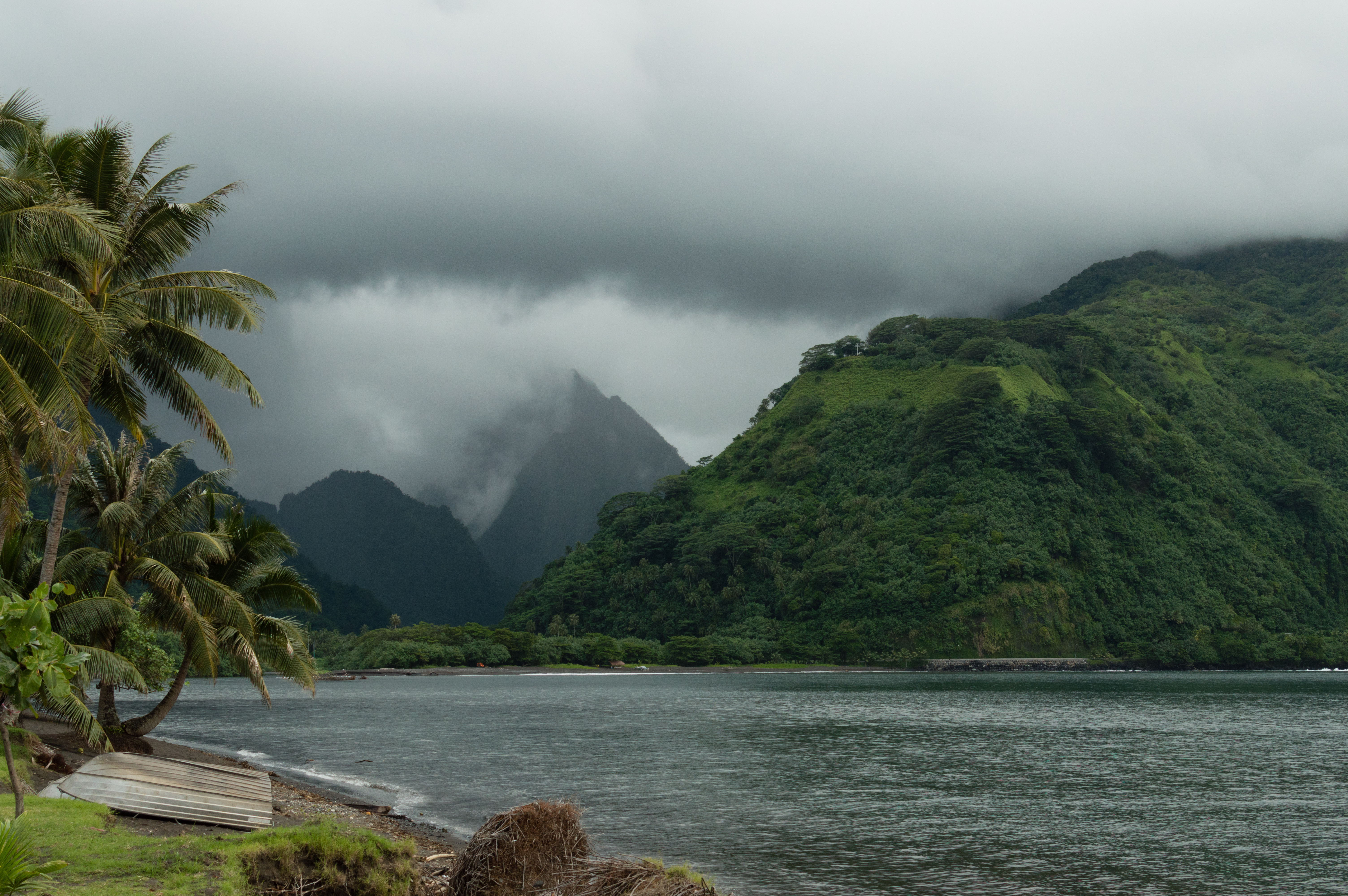 Photograph of Tautira Beach and the surrounding mountains (Tahiti, French Polynesia).